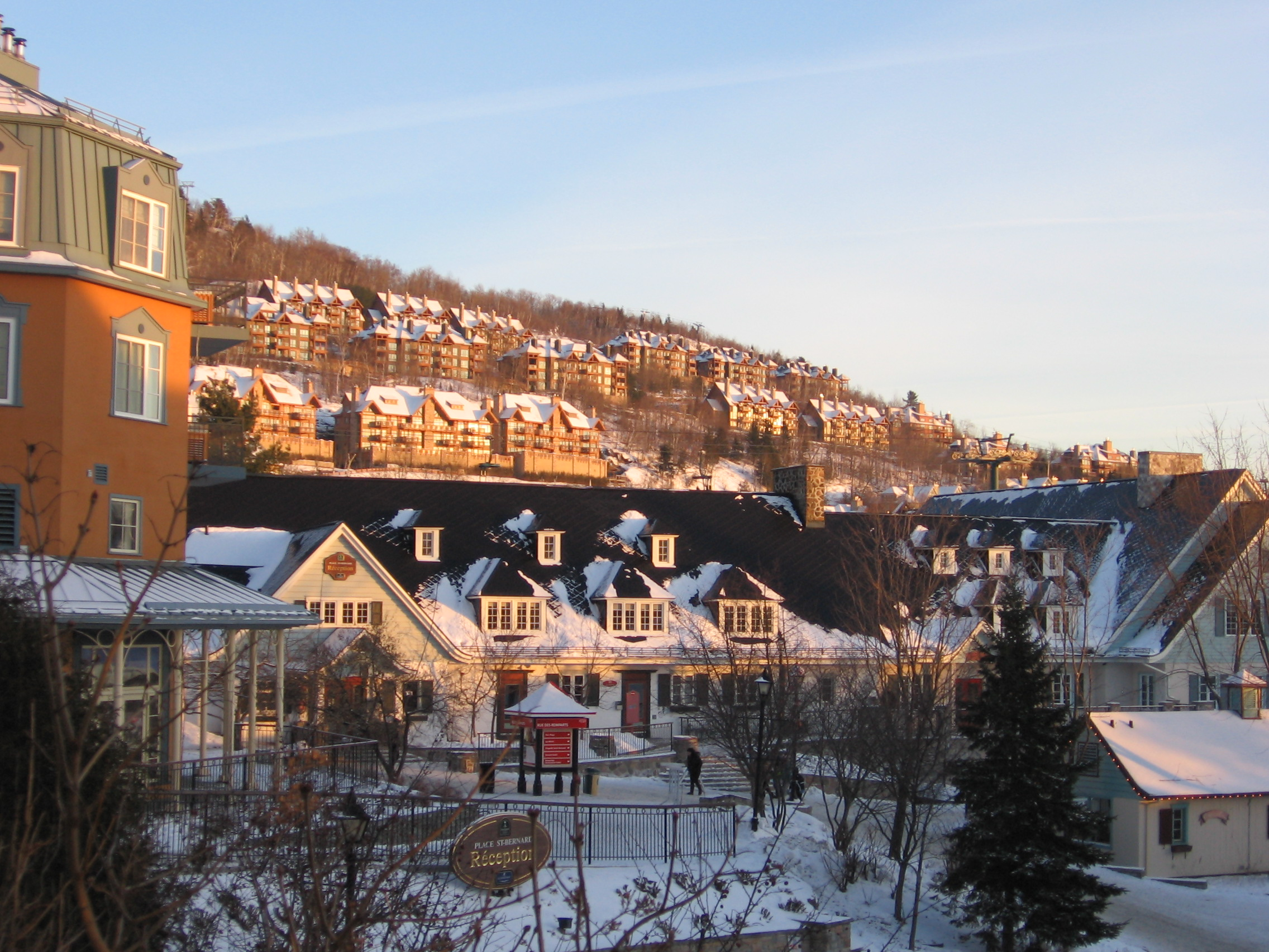 Mont-Tremblant